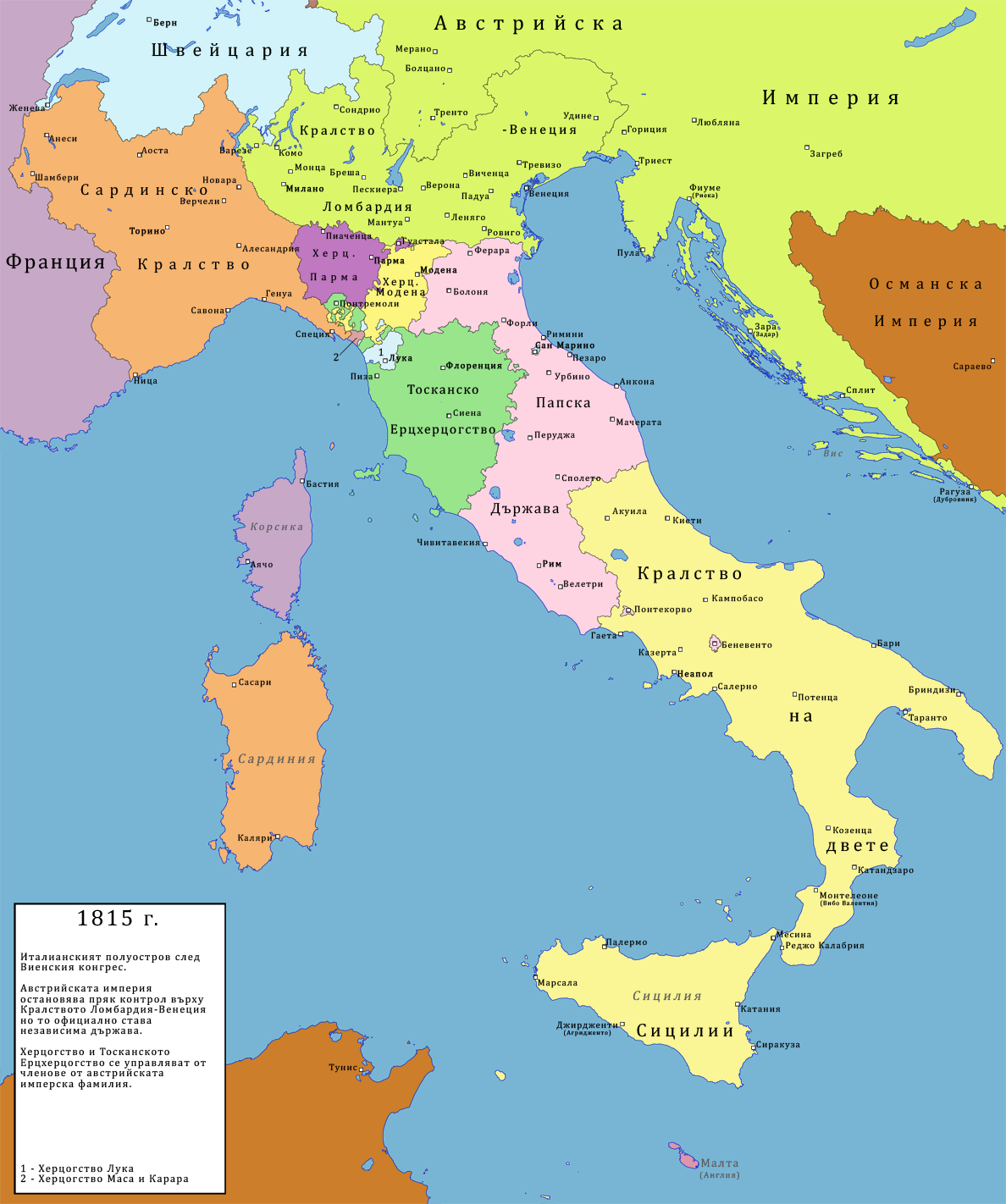 Map of Italy in 1815 in Bulgarian: After the Congress of Vienna, the Austrian Empire sought to establish direct and indirect control over the various Italian states. It established a direct political control over the newborn Kingdom of Lombardy-Venetia, but it officially remained an independent state. The Duchy of Parma, Duchy of Modena, Grand Duchy of Tuscany and the Kingdom of two Sicilies were ruled by members of Austrian imperial family, or they are under the influence of the Austrian imperial politics. Only the member of the House of Savoy has no family relationships with Austria.